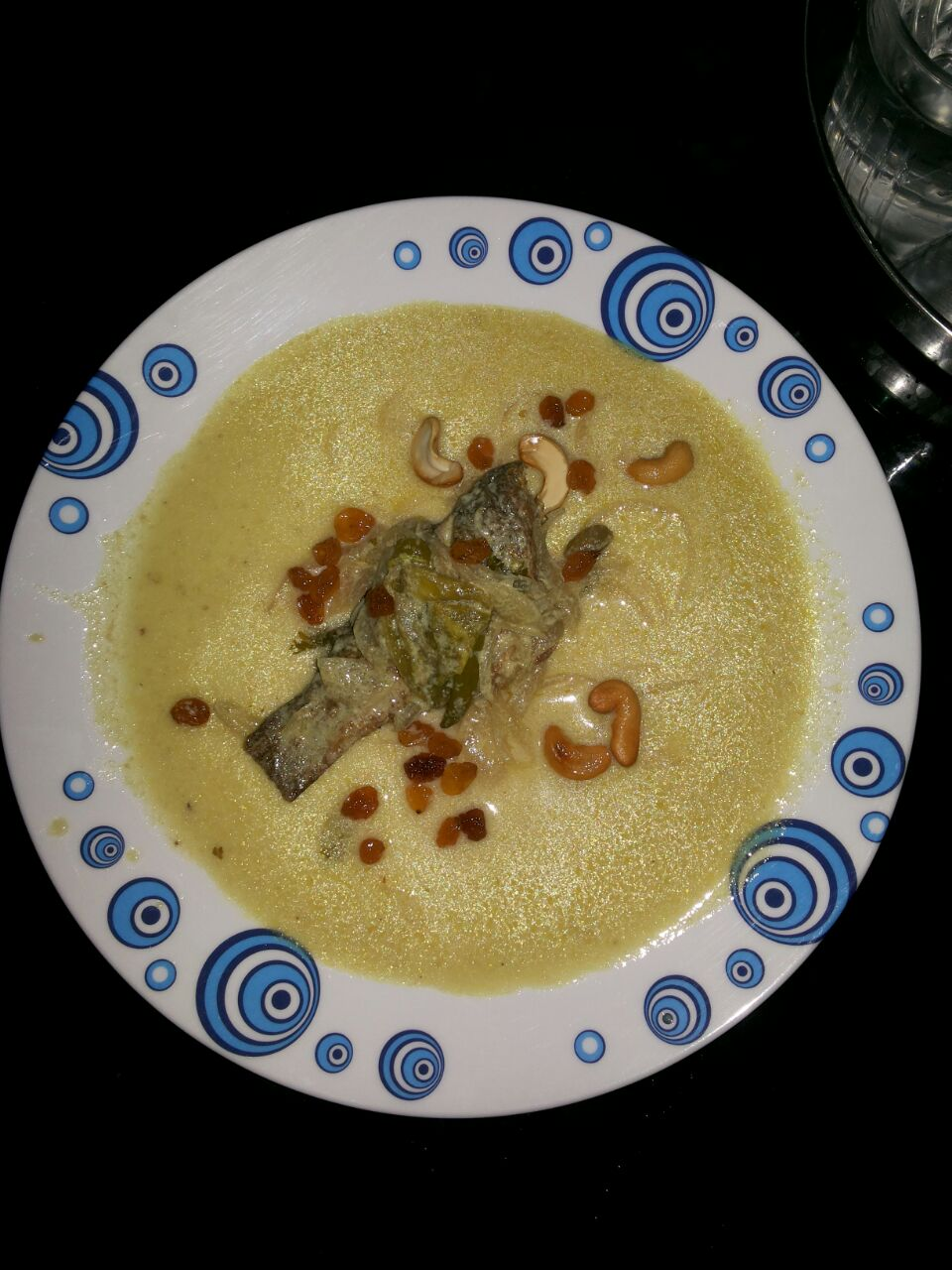 Fish Moilee: Keralite fish curry famous for its less spicy and creamy taste for those who wish for a foreign taste of any fish prepared by the west coast kerala latin christian community.